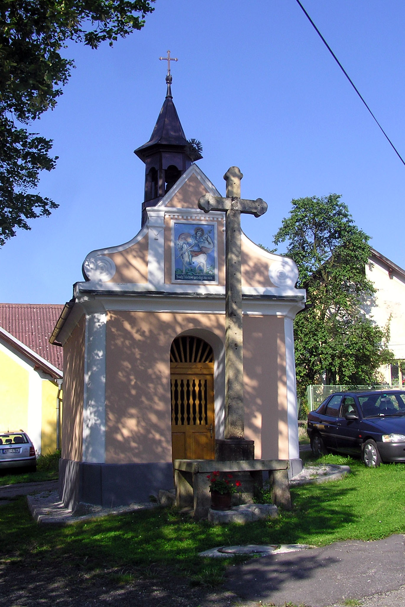 Lčovice - Chapel S. Wenceslaw